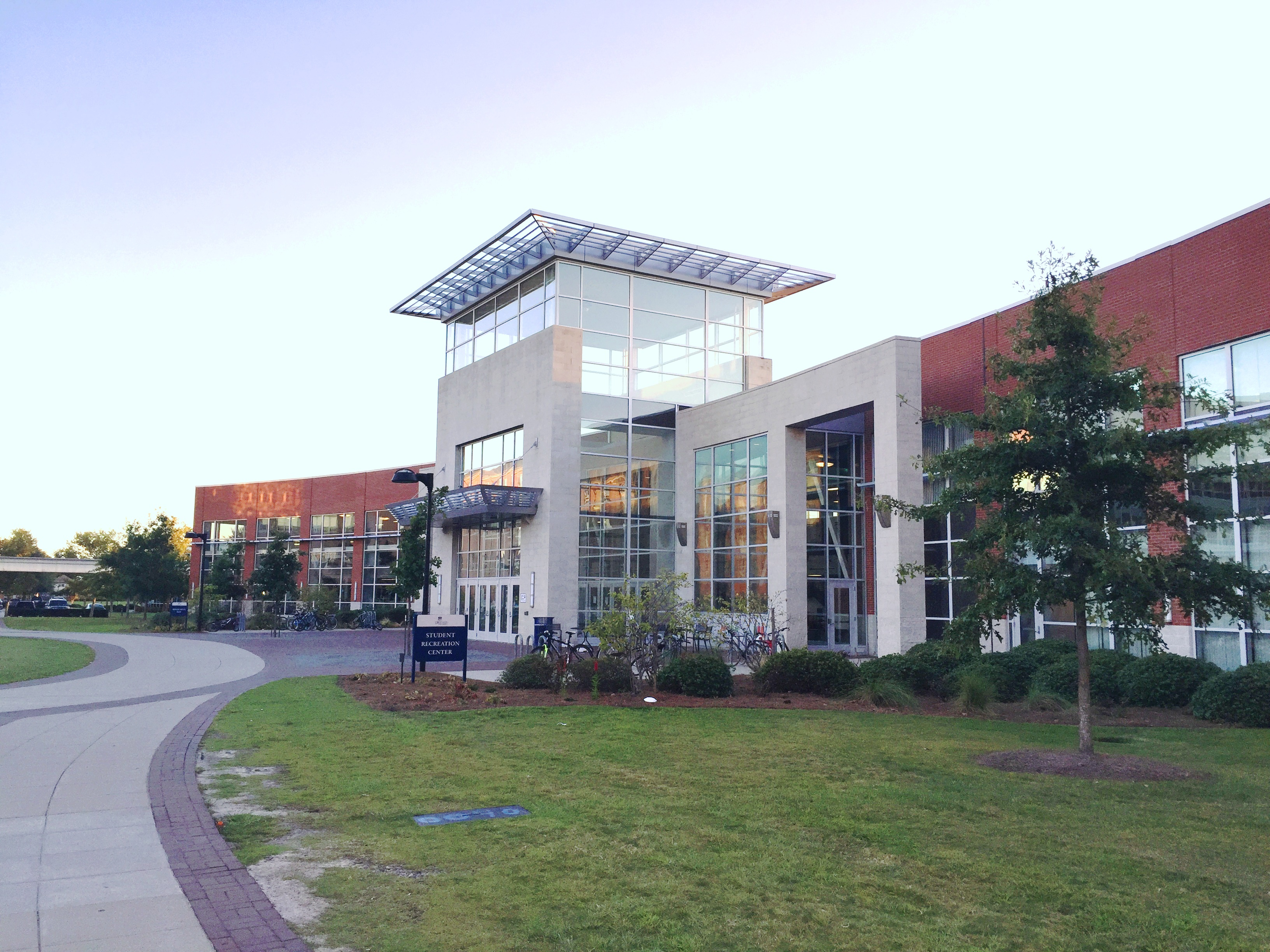 Old Dominion University Student Recreation Center